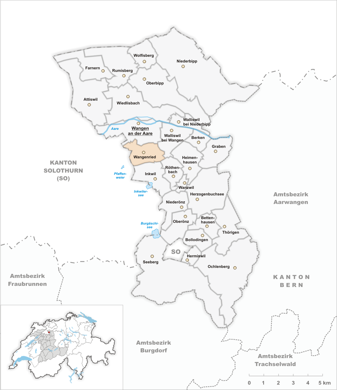 Municipality Wangenried